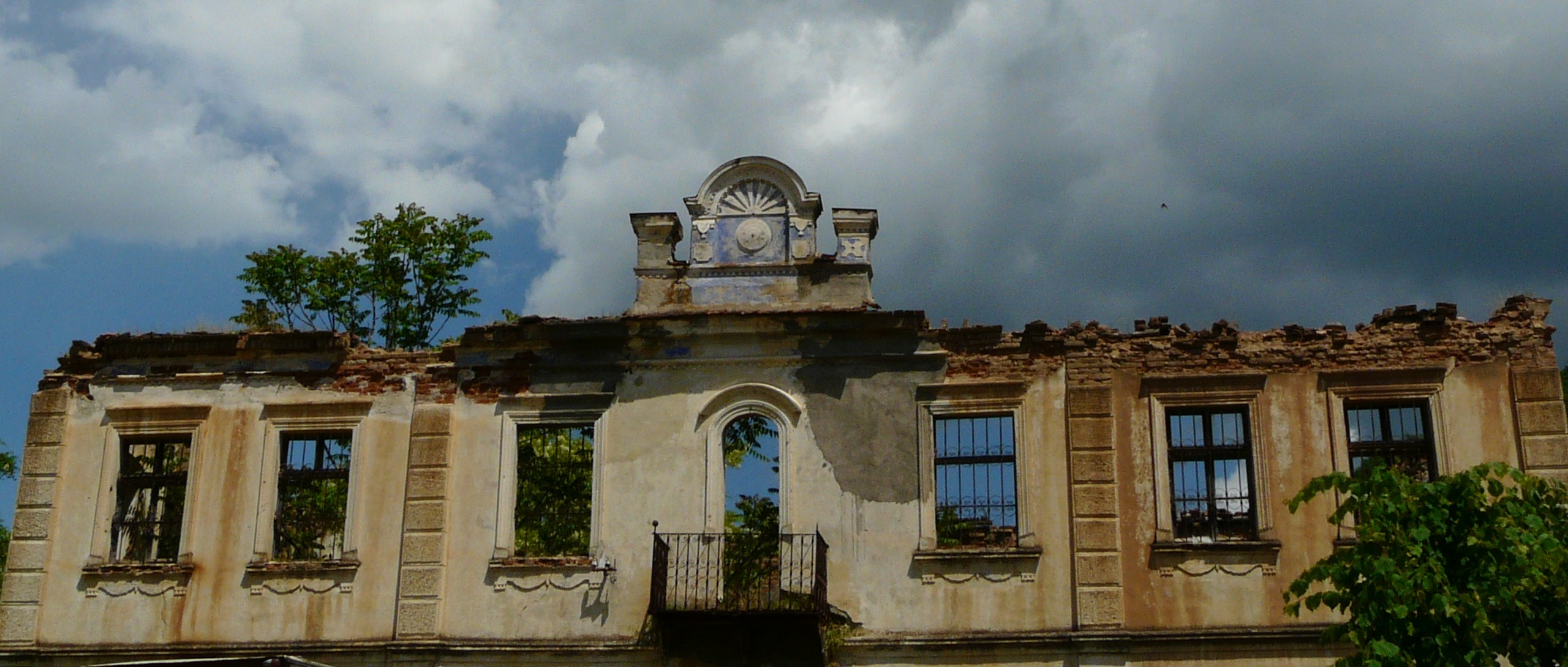 The old school, Ljubojno, Macedonia